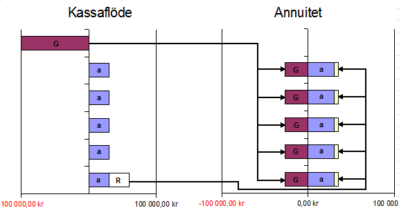 Swedish corporate finance: Annuitetsmetoden